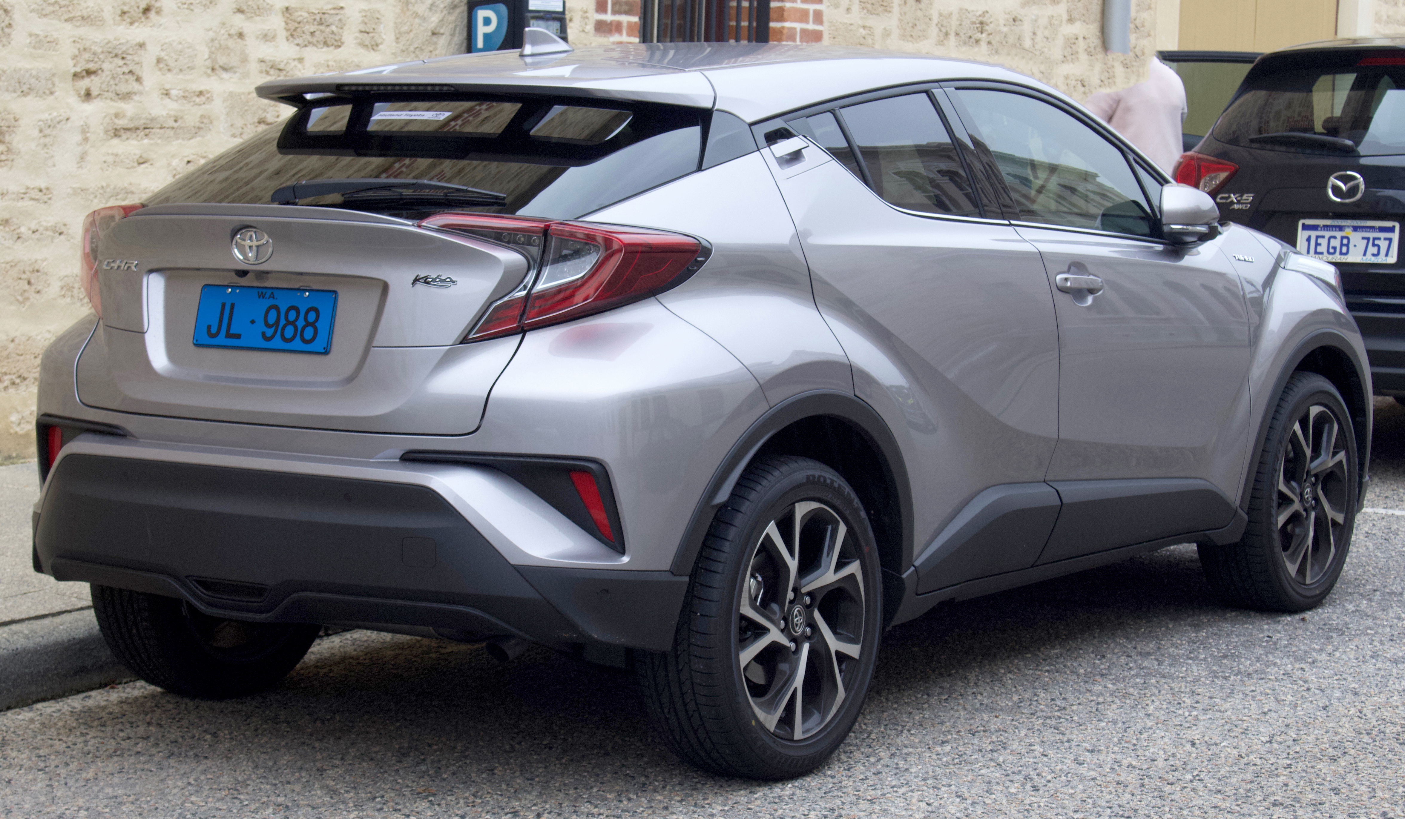 2016-2018 Toyota C-HR (NGX10R) Koba 2WD hatchback. Photographed in Fremantle, Western Australia, Australia.